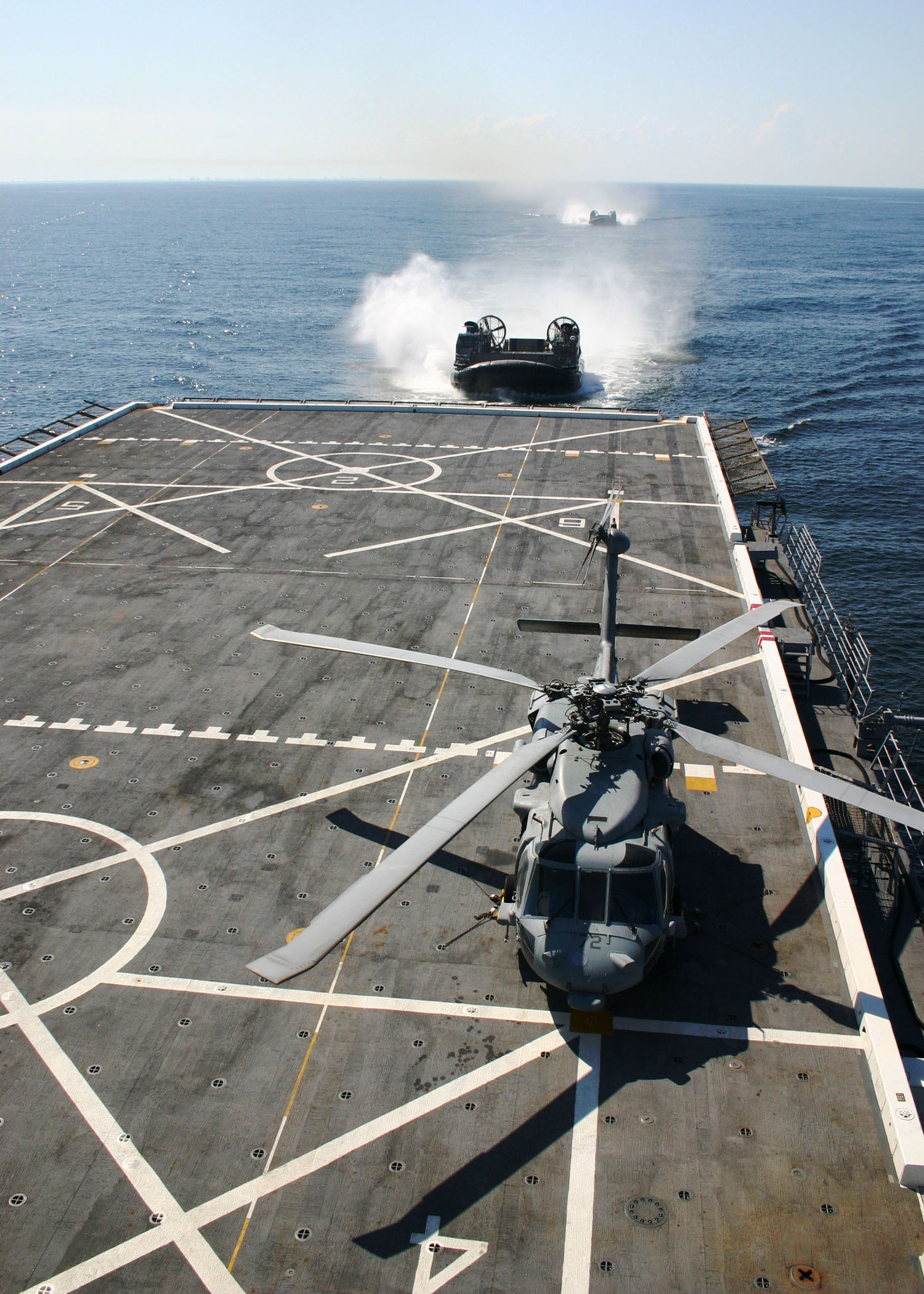 ATLANTIC OCEAN (April 24, 2009) Landing craft, air cushion from Assault Craft Unit (ACU) 4 prepare to dock inside the amphibious dock transport ship USS Mesa Verde (LPD-19). Both ACU 4 and the Mesa Verde are participating in the 50th iteration of UNITAS Gold, a two-week multinational exercise meant to foster cooperation and increase interoperability among participating navies. The exercise involves Brazil, U.S., Peru, Mexico, Germany, Canada, Ecuador, Argentina and Chile. The two-week exercise includes realistic scenario-driven training opportunities such as live-fire exercises, shipboard operations, maritime interdiction operations and special warfare. (U.S. Navy photo by Dawn C. Montgomery/Released)